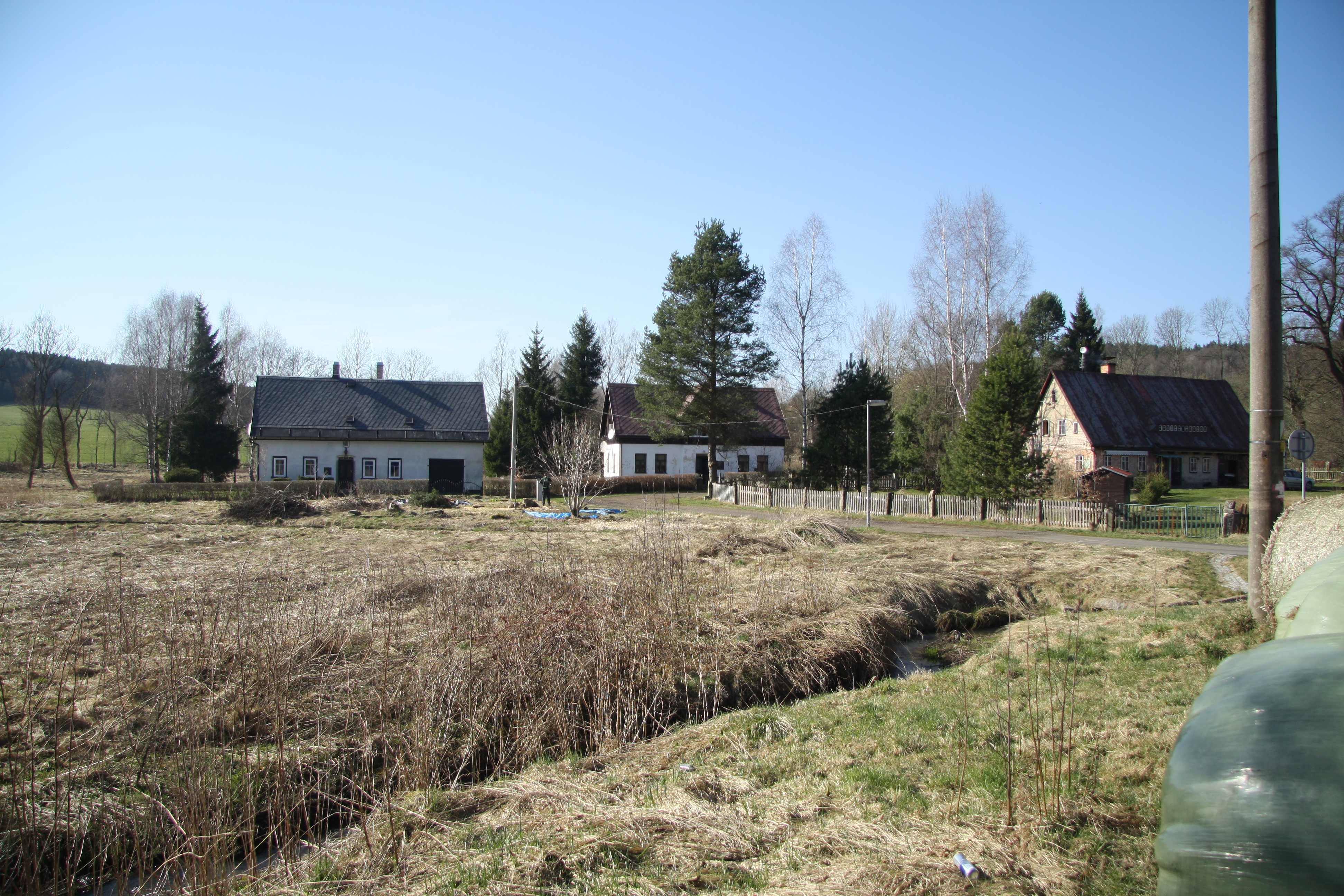 Houses and meadow in Severní, Lobendava, Děčín District.